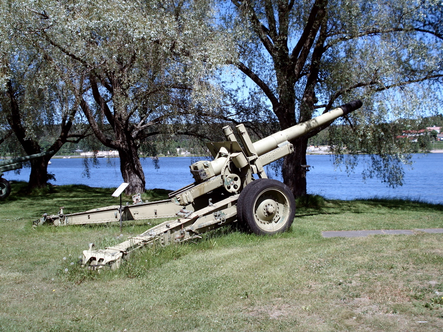 Soviet 152mm mm ML-20 gun-howitzer, displayed in Hämeenlinna Artillery Museum. Photo taken on June 18, 2006. Source: Photo by me, User:Balcer.